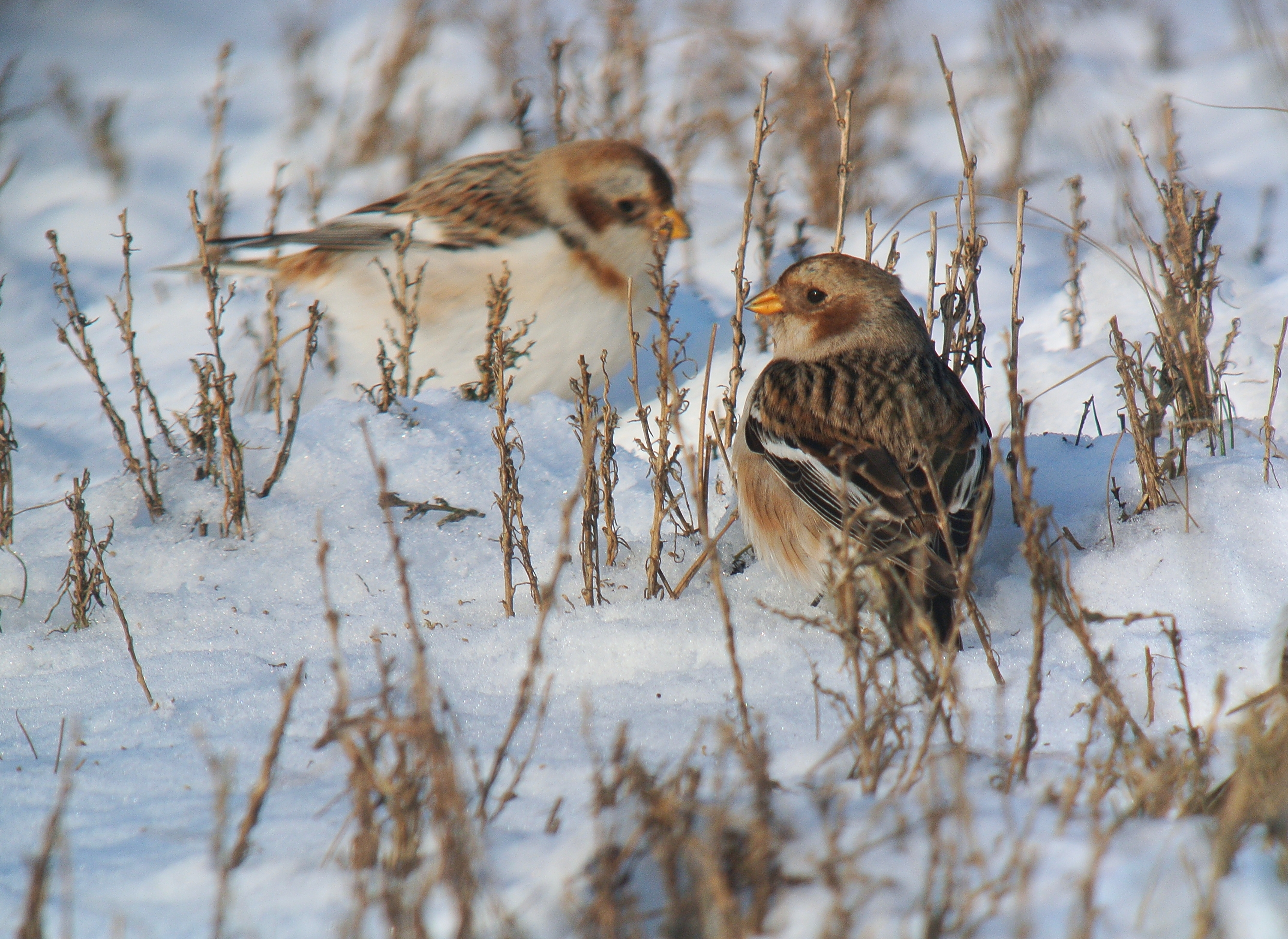 Snow Buntings (Plectrophenax nivalis) at Kwade Hoek, Netherlands. Photograph taken by digiscoping with Swarovski ATM 80 HD 30 X, Nikon 1V1 + 10-30 mm lens (Adapter DCB)